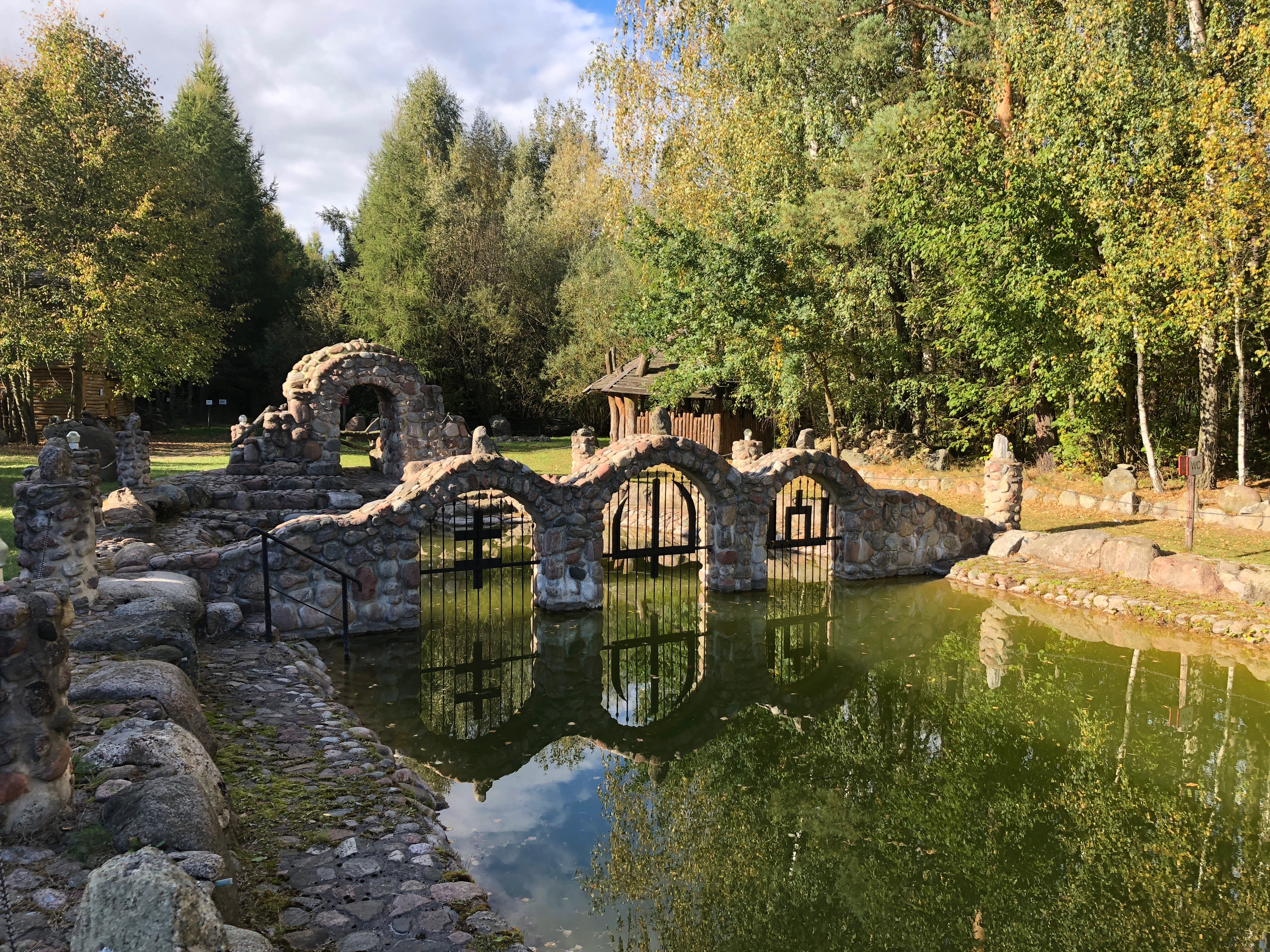 Leisure park "Prussian and Yotvingian settlement" near Ožkiniai (Oszkinie)